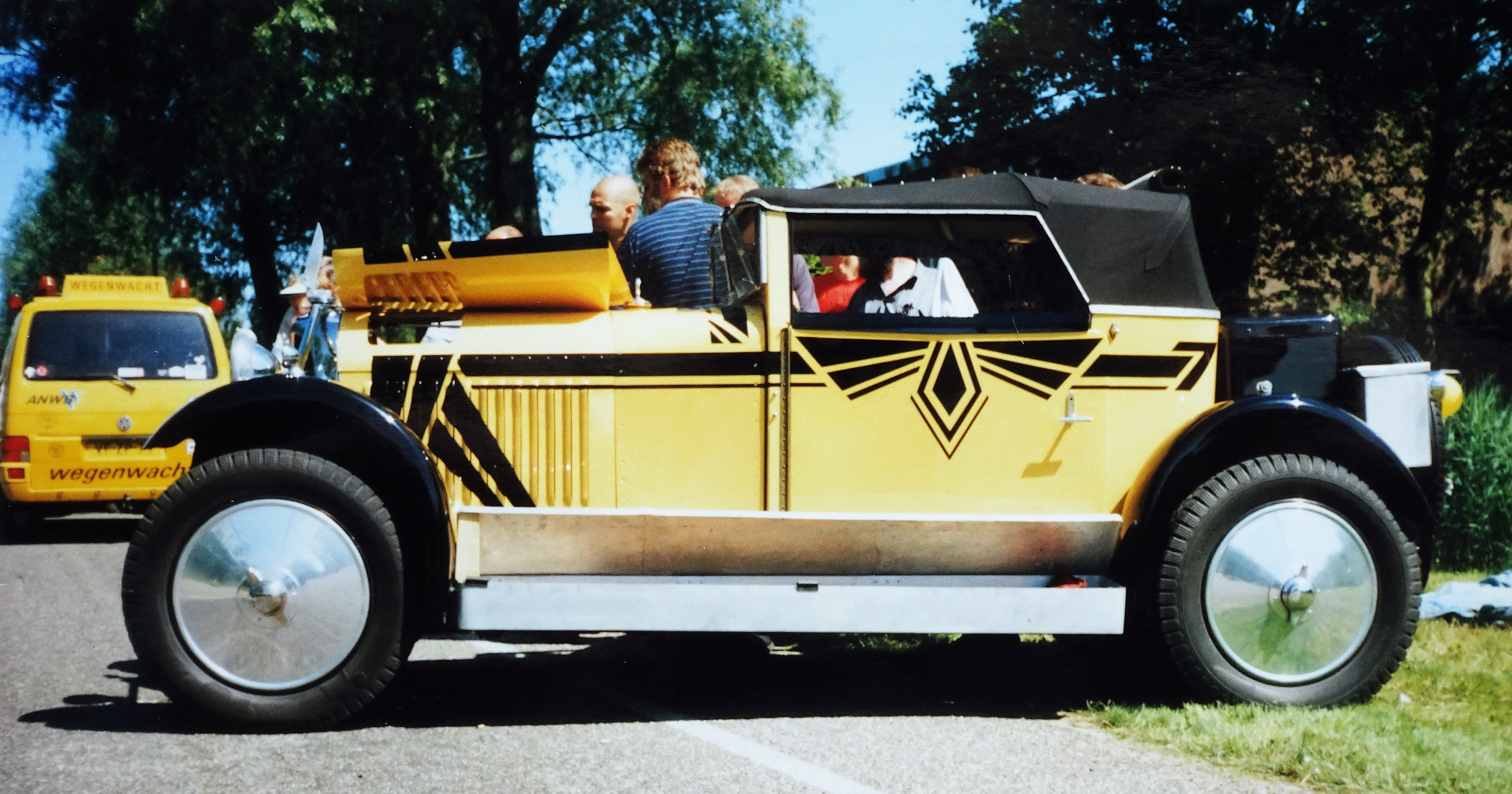 Avions-Voisin C15 in Lelystad (Netherlands) June 2000